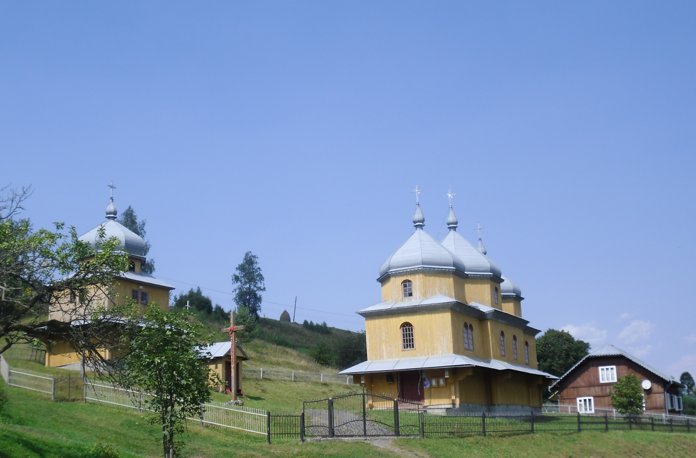 Hitar (Skole Raion). Church of St. of Archangel Michael (wooden, 1860) and bell tower.